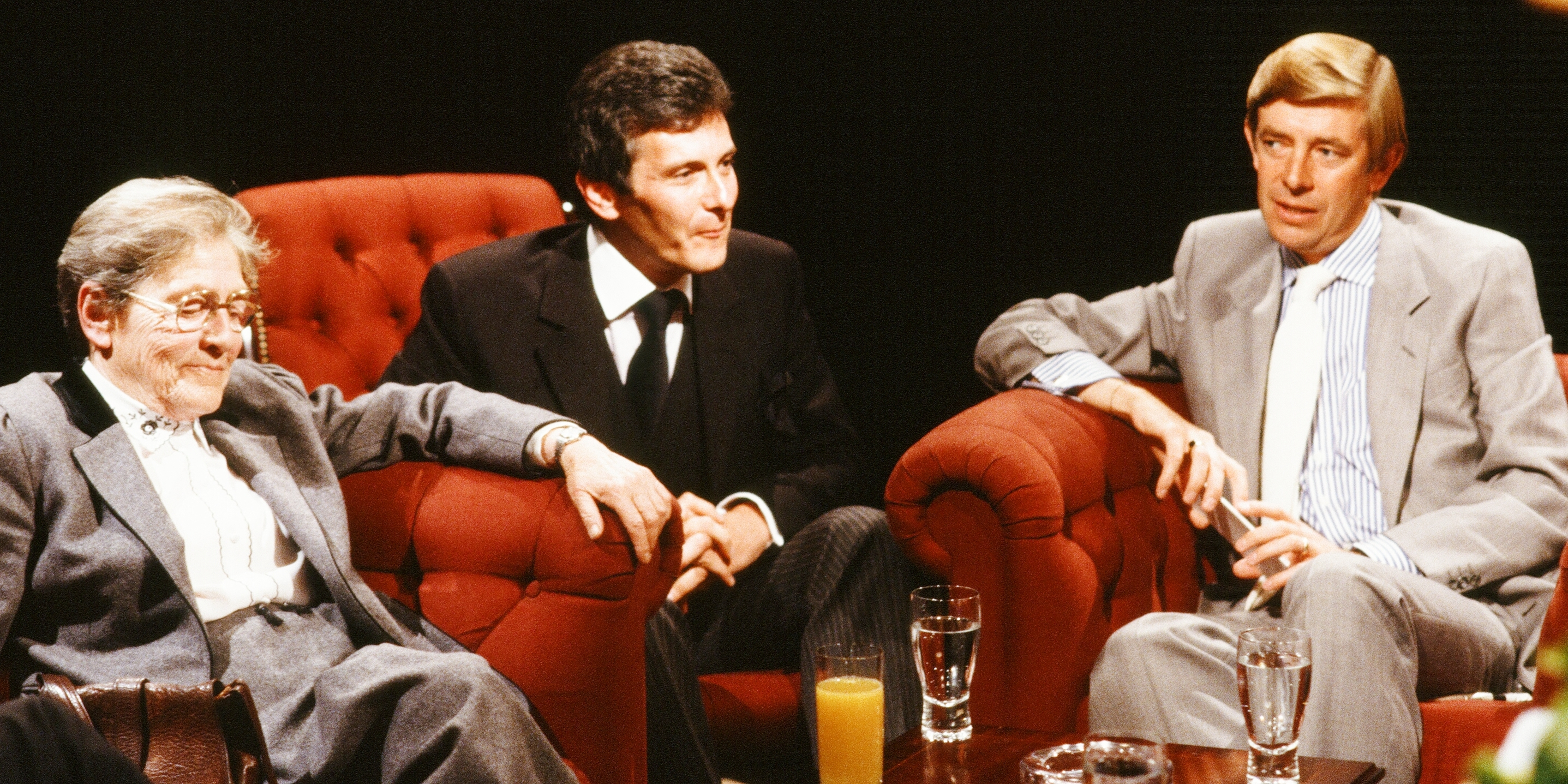 Marie Jahoda and Nicholas van Hoogstraten discussing 'Money' on After Dark on 13 August 1988, with that week's host Henry Kelly. Other guests included Michael Lee, Owen Oyston, Michael Bassett, , Hannah Ward and Frances Jankowski.